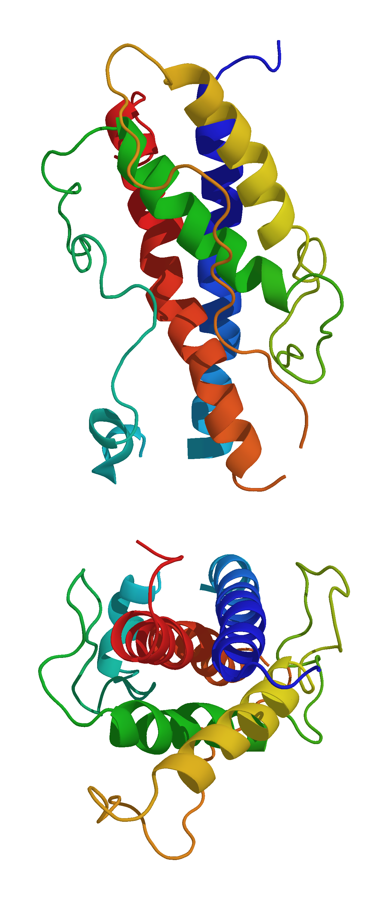 3d structure of somatotropin (growth hormone 1) from PDB 1HGU from orthogonal viewpoints. Ref: L.Chantalat,N.Jones,F.Korber,J.Navaza,A.G.Pavlovsky (1995). THE CRYSTAL-STRUCTURE OF WILD-TYPE GROWTH-HORMONE AT 2.5 ANGSTROM RESOLUTION.. Protein Pept.Lett., 2, 333-340.